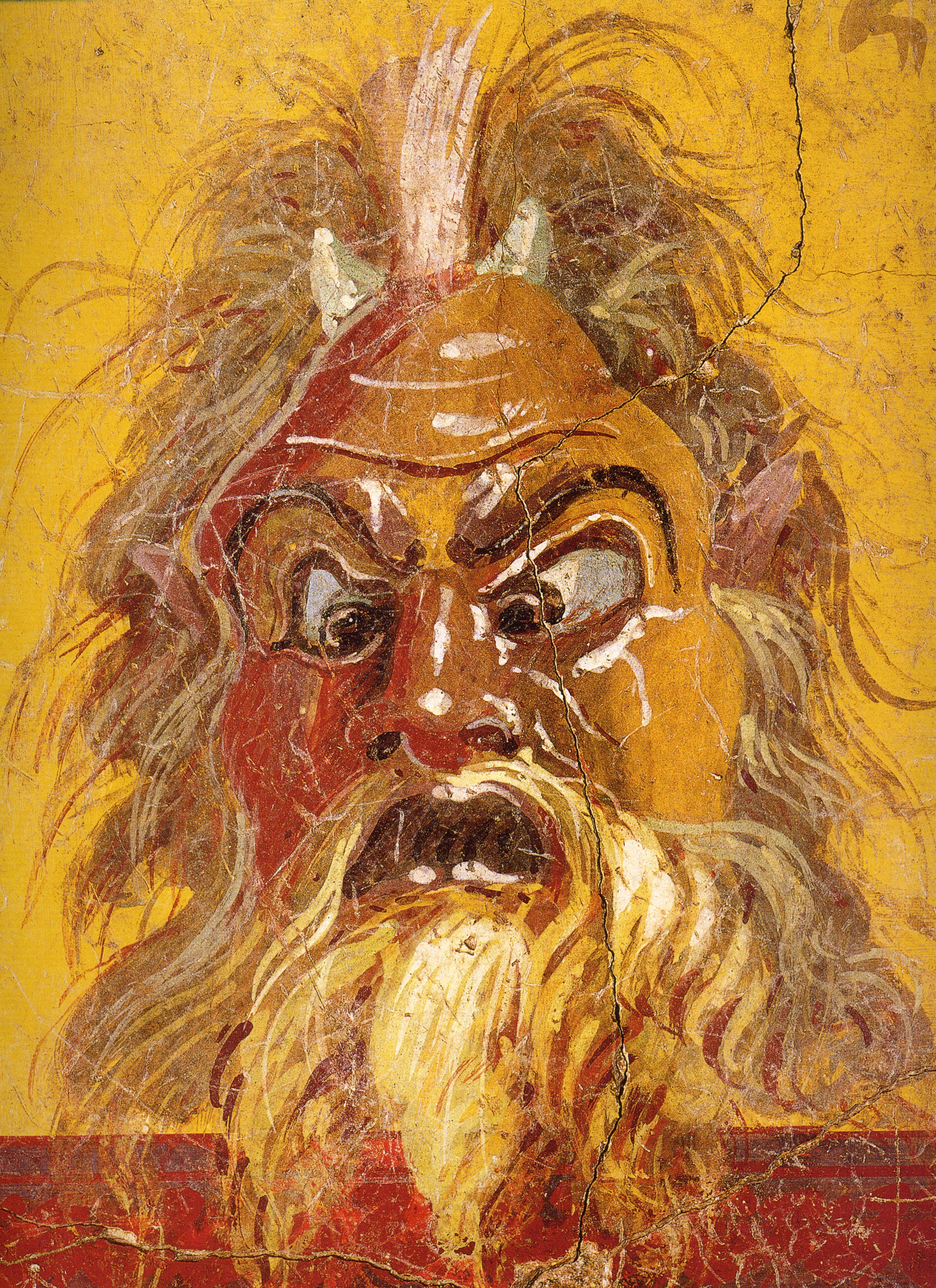 Theatre mask. Roman fresco from Pompeii. Museo Archeologico Nazionale (Naples)